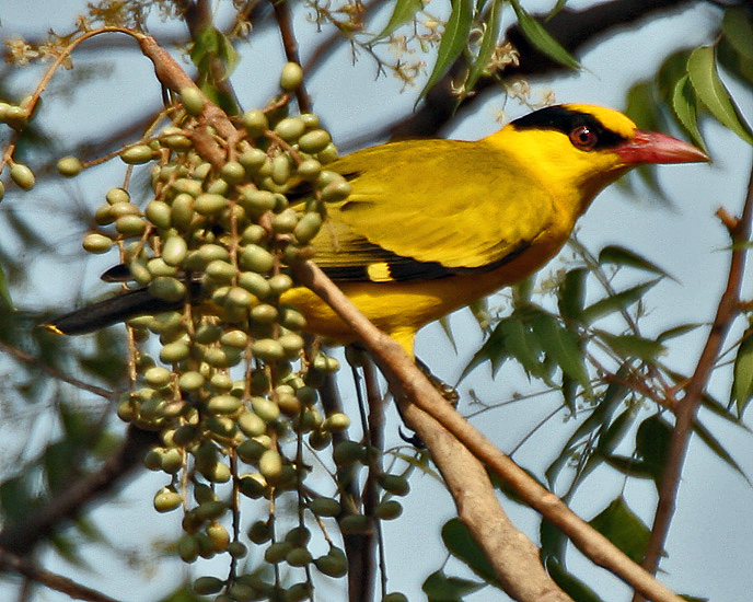 Black-naped Oriole Oriolus chinensis on Lannea coromandelica i.e. Wodier Tree, Moi, GURJAN, Jhingan, Shembat/ Shemat, woddiya maram, Indian ash tree, moya, jia, jiola, goddana-mara, mavedi, mohin, godda, gumpina, kuratige, udimara, moi, kaarilav, kaladam, karas, karayam, otiyan-maram, uthi, mendashingi, shemat, shimati, shinti, hallunde, indramai, ajashringi, jhingini, oti or ajasrngi at Mahavir Harina Vanasthali National Park, Hyderabad, India.